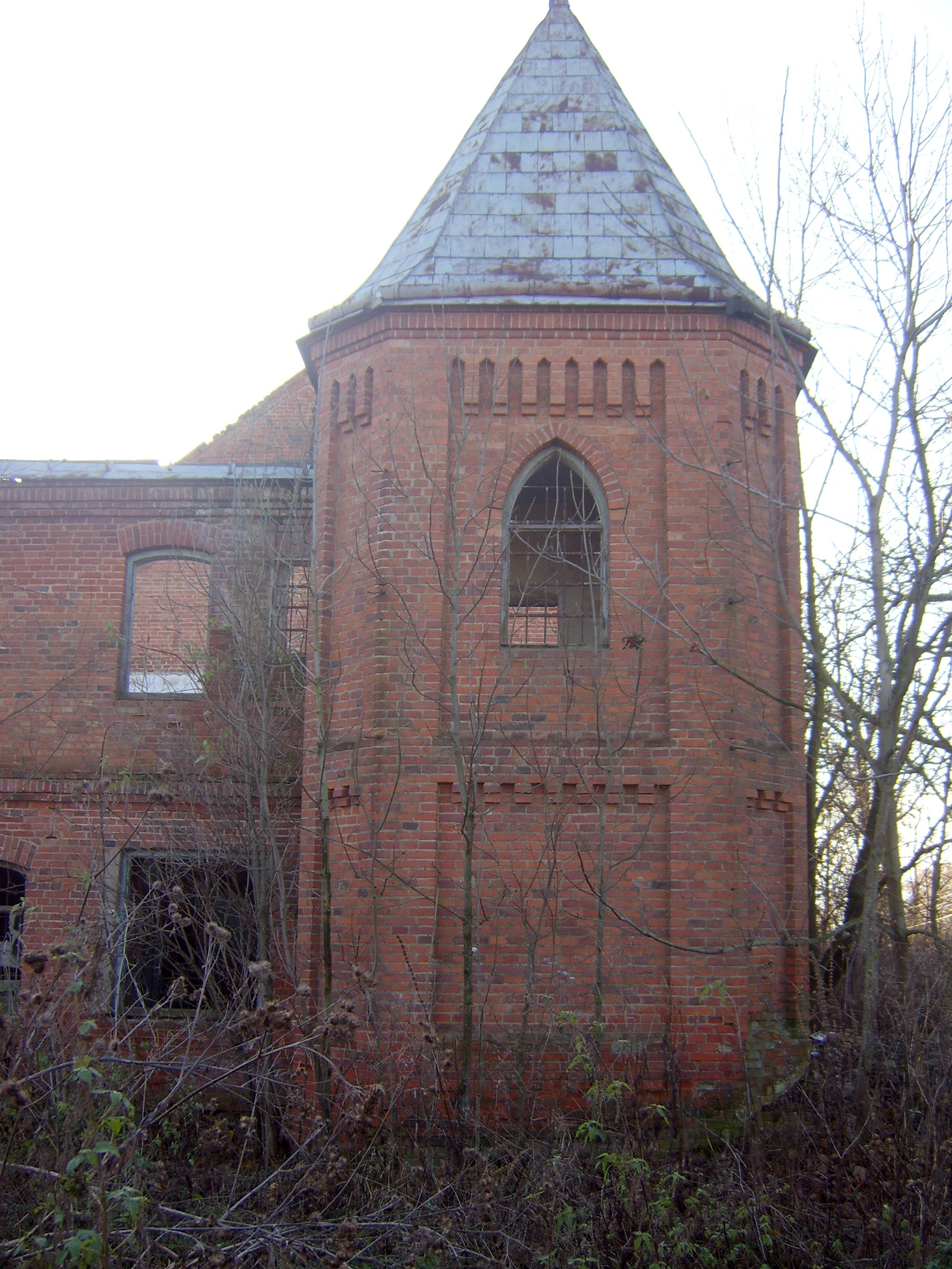 Łaškievič Estate, Stajki village, Baranavičy district